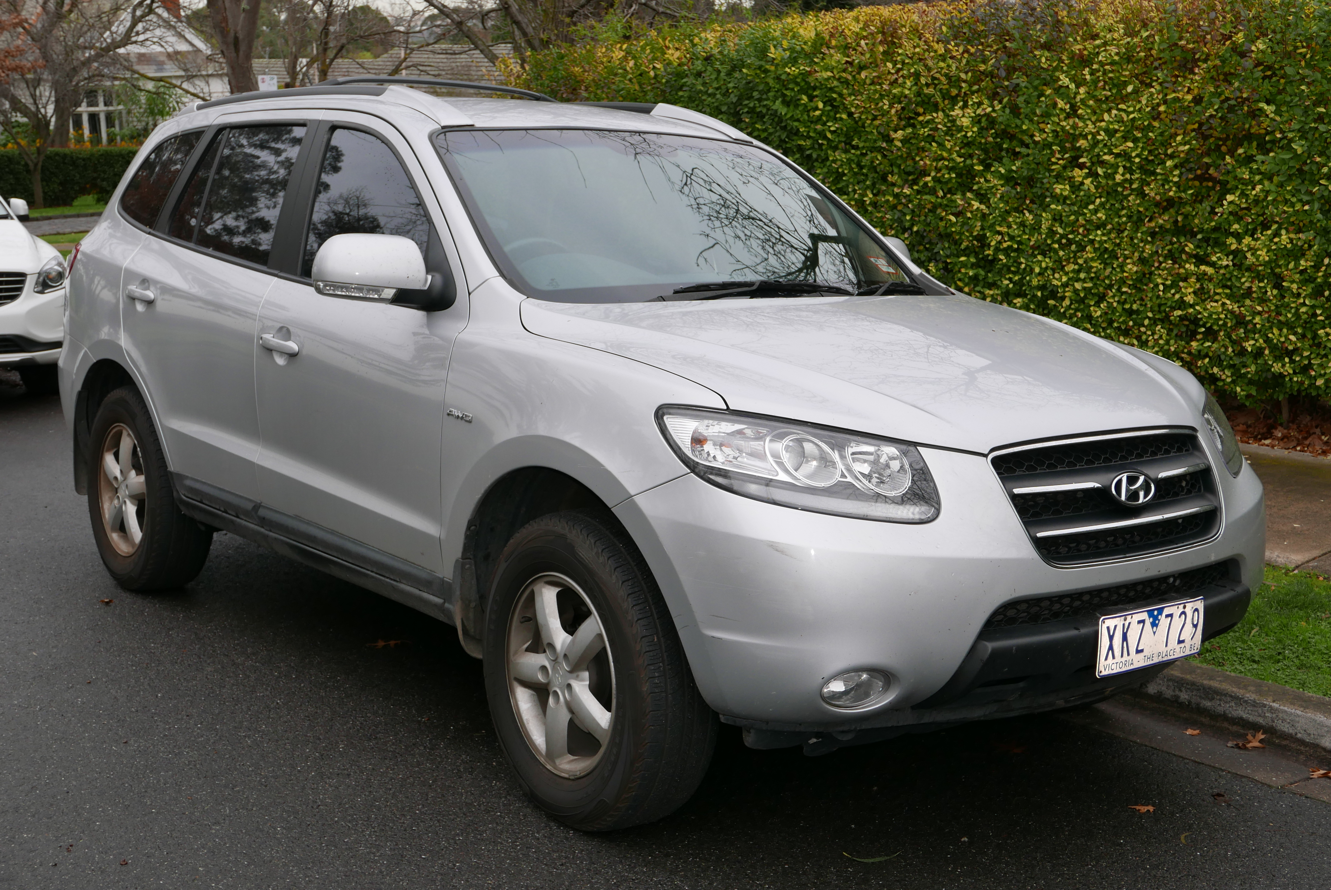 2009 Hyundai Santa Fe (CM MY09) SLX CRDi wagon. Photographed in Ivanhoe, Victoria, Australia. Vehicle registration enquiry resultsJurisdictionVictoriaRegistrationXKZ729Chassis codeKMHSH81WR9U469136Engine codeD4EB8721885Compliance date2009-04Year of manufacture2009